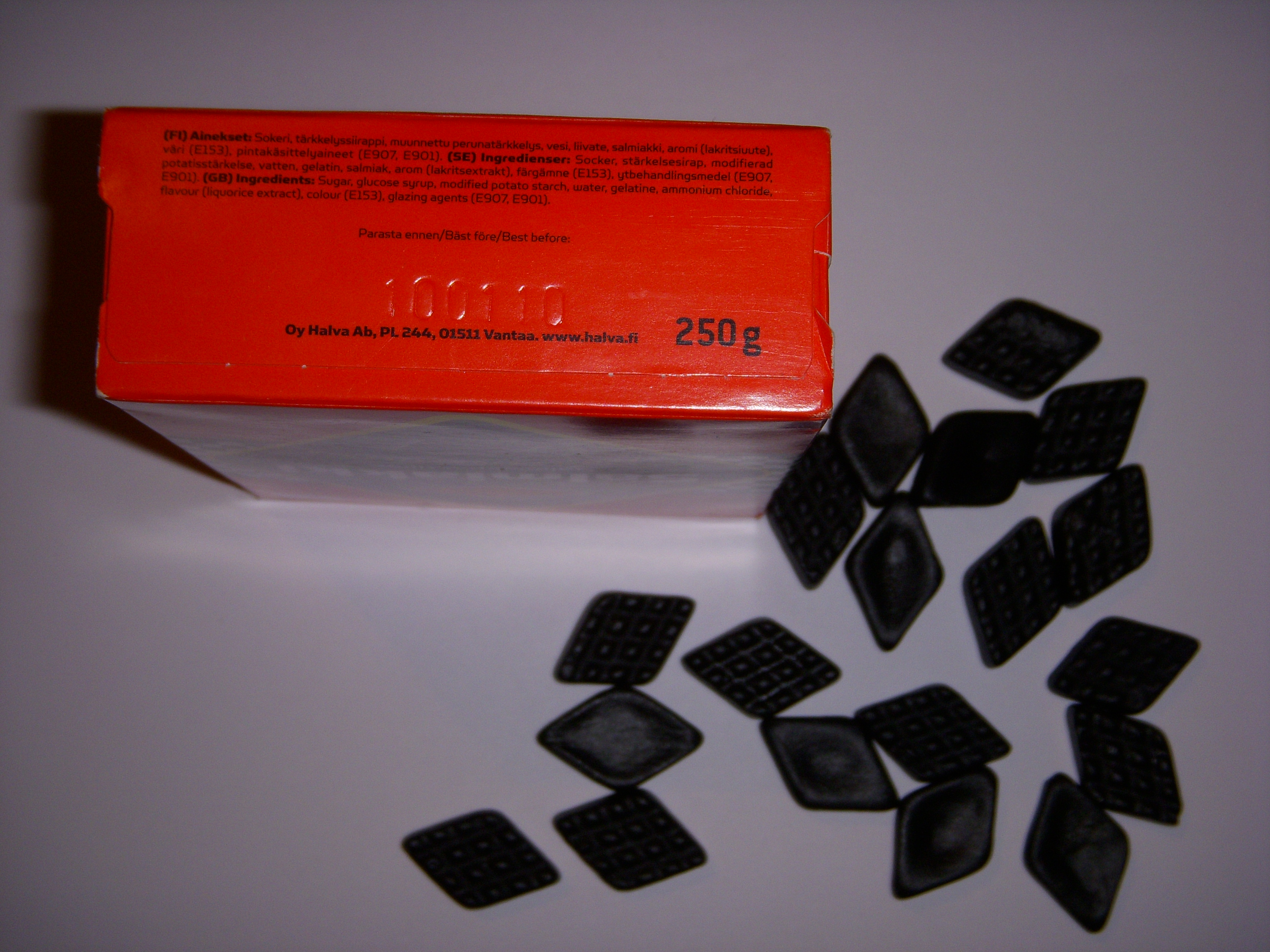 Salmiakki candy, halva.fi brand, from Finland, 250-gram package; composition: sugar, glucose syrup, modified potato starch, water, gelatine, ammonium chloride, flavour (liquorice extract), colour (E153), glazing agents (E907, E901)